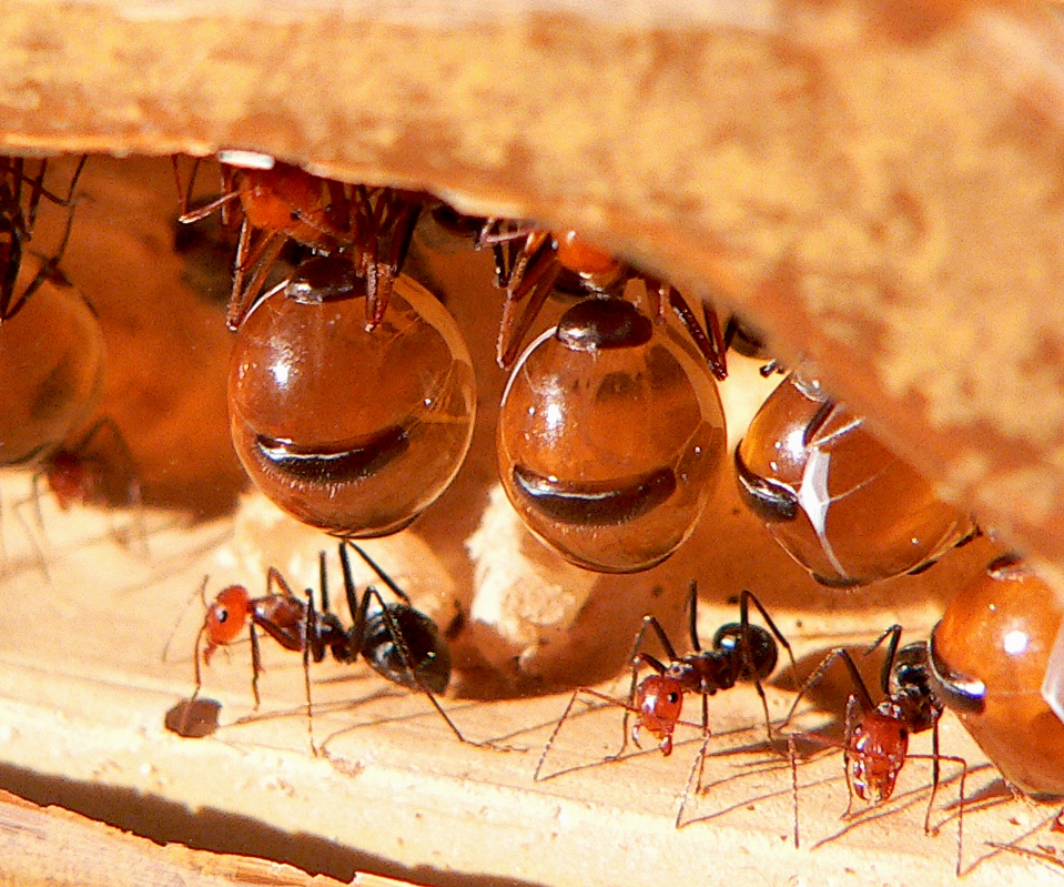 Myrmecocystus ants storing nectar to prevent colony famine. Taken at the Cincinnati Zoo. Photo by Greg Hume